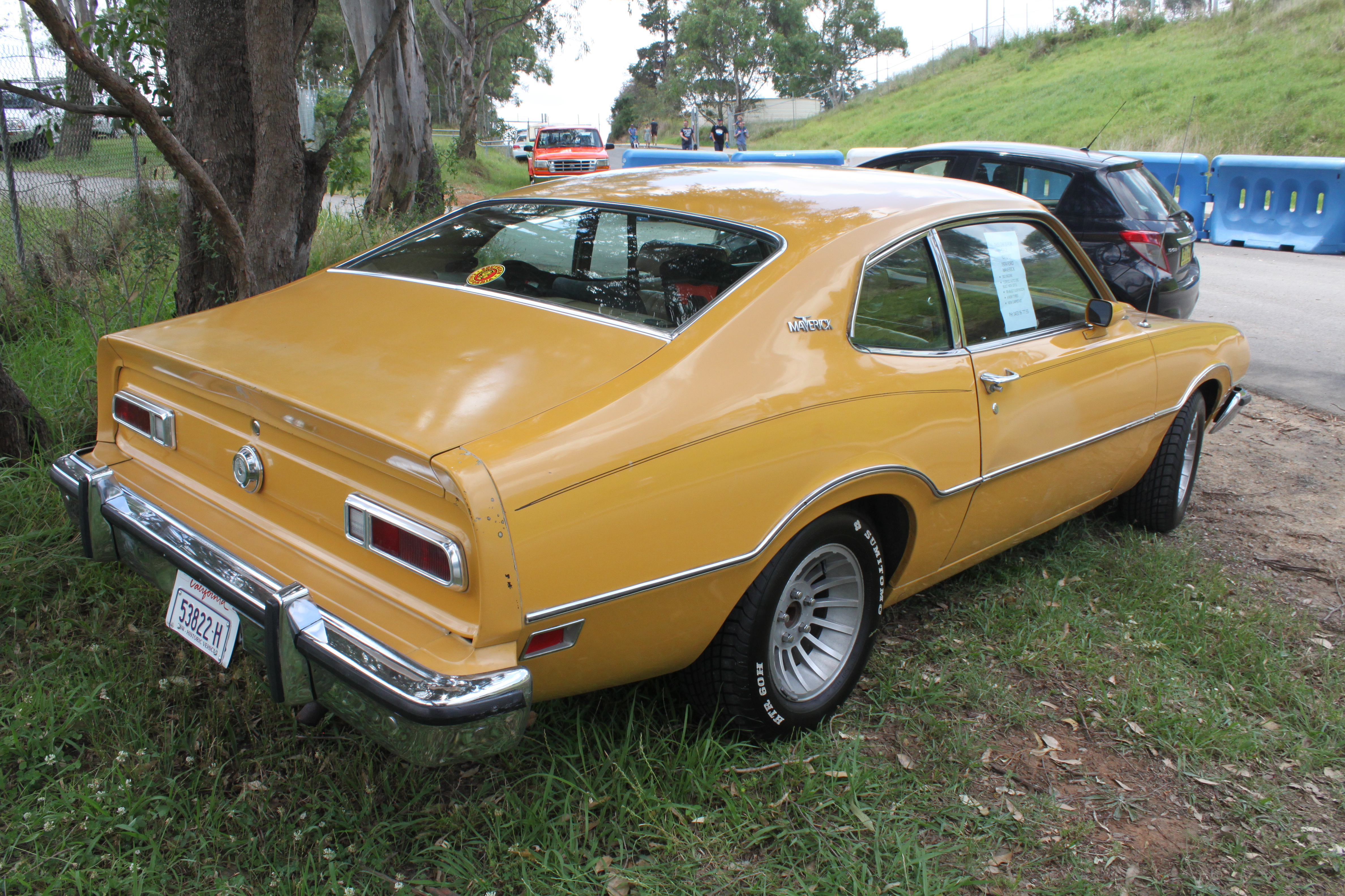 1974 Ford Maverick